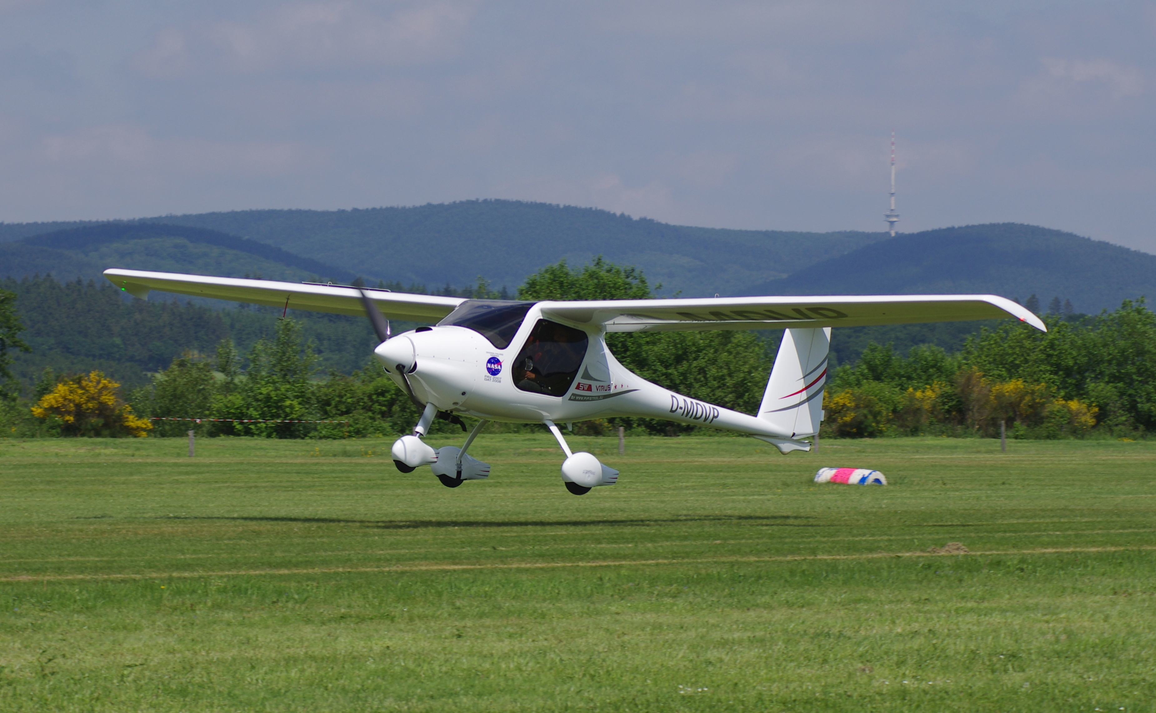 A Pipistrel Virus SW landing at Schmallenberg-Rennefeld (EDKR) during the Bergfliegen 2012